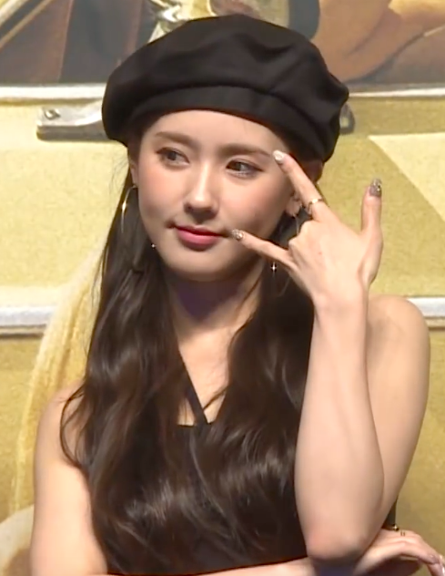 Miyeon of (G)I-dle at 'Uh-Oh' Showcase on June 26, 2019.